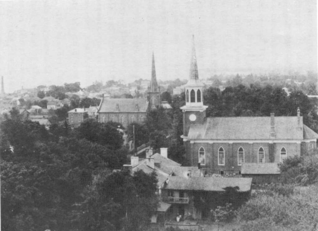 This picture was taken in 1890 of St. Paul's church in Prescott Ontario Canada. It was featured in Illustrated Historical Atlas of the Counties of Leeds and Grenville Canada West.